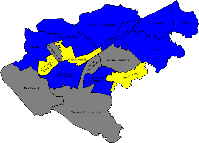 A map of the results of the 2007 Woking Council election. Colour legend by wards won: Conservative party Liberal Democrats Wards in grey were not contested in 2007.